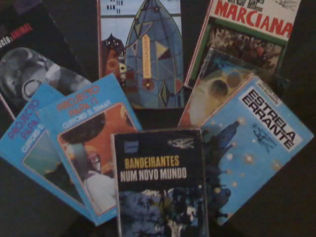 Books of the "Colecção Argonauta"